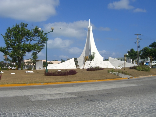 A central square at Cancún, Q. Roo, close to the bus station